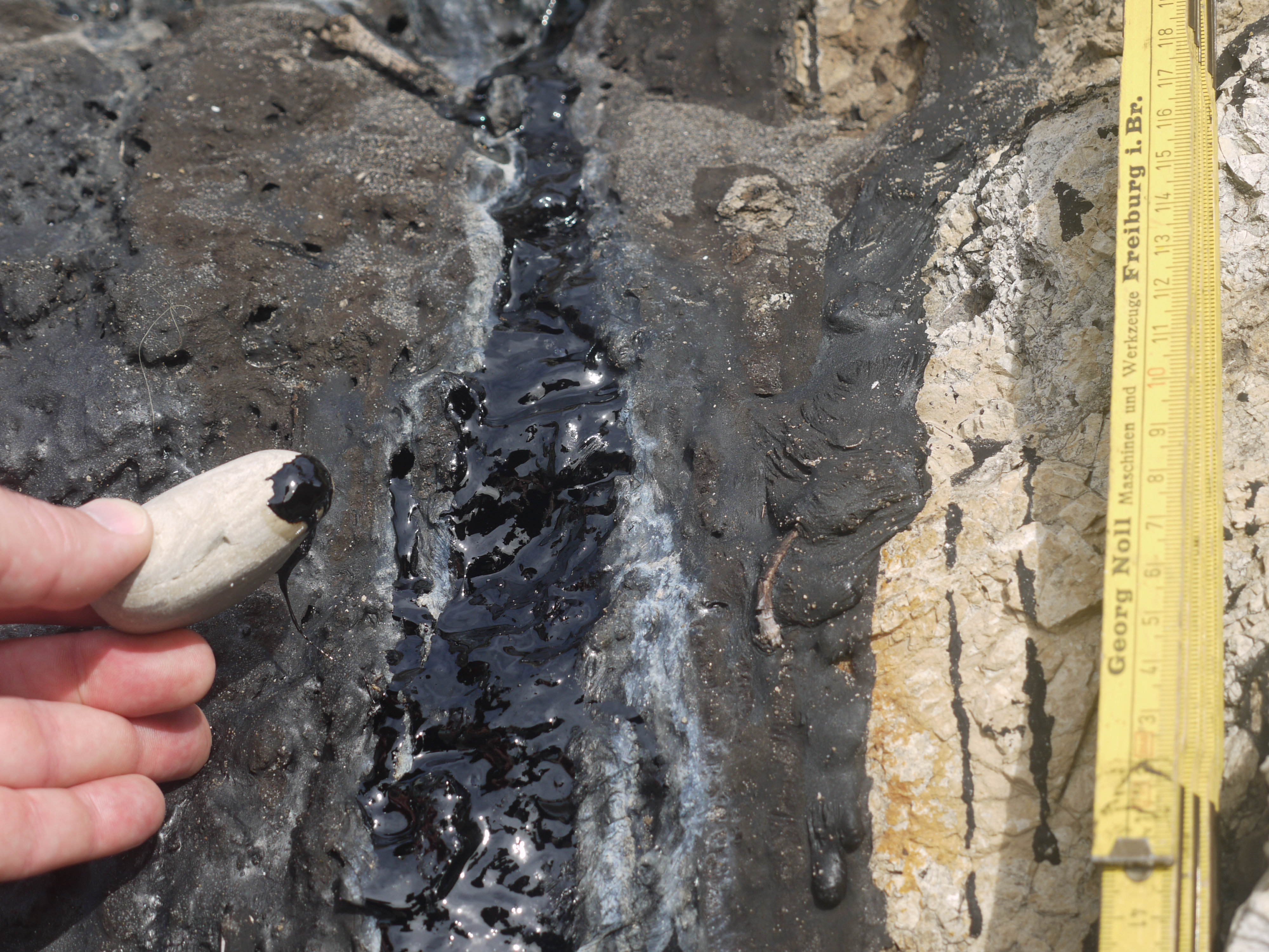 tar 'leak' at Carpinteria, CA yellow vertical strip is 1m